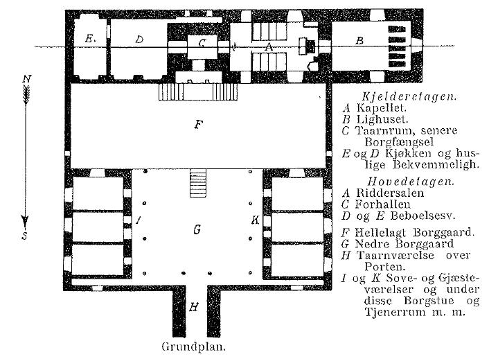 Austråttborgen (en: The Manor of Austrått), in Ørland, Norway, built 1656